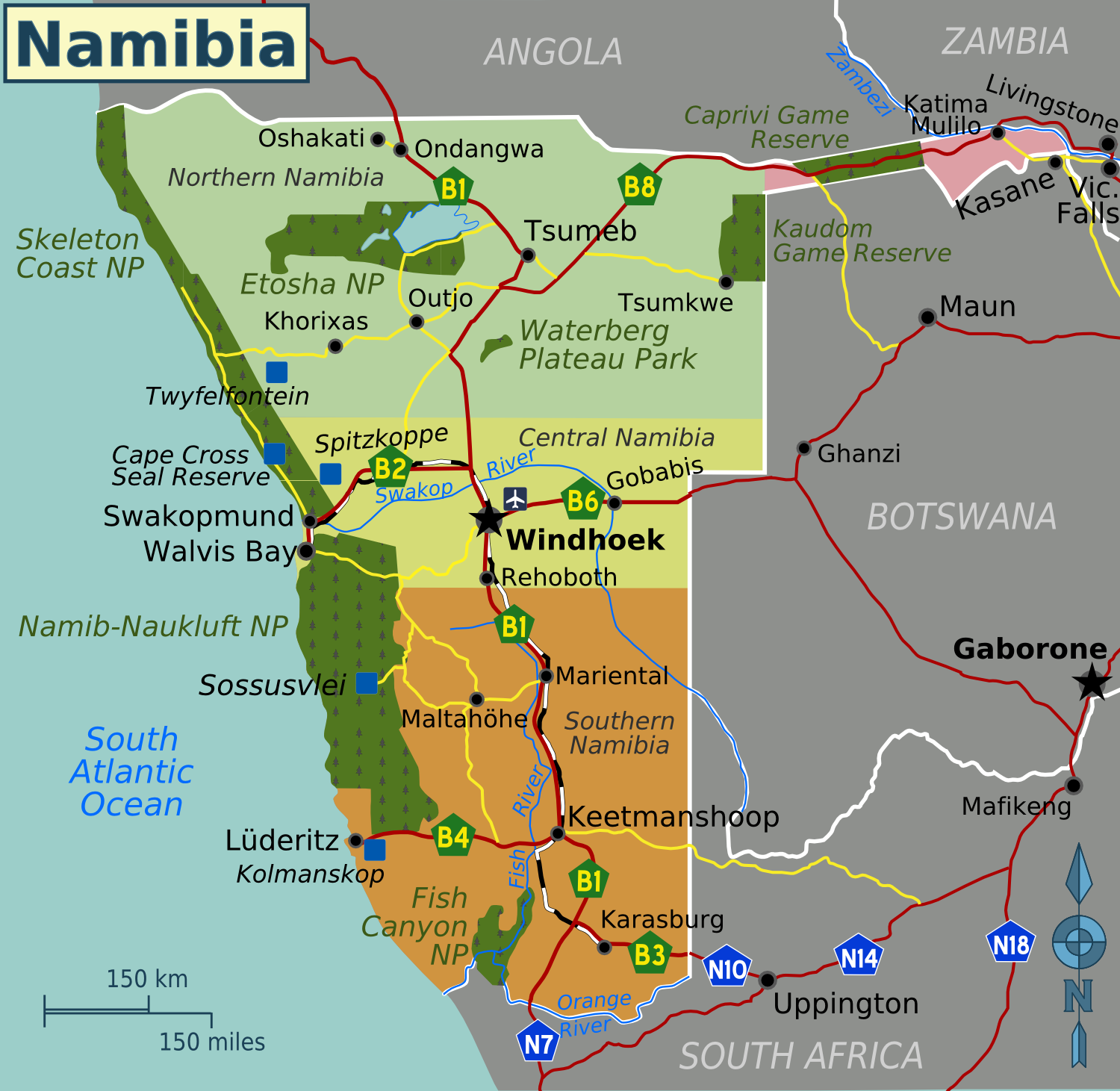 Regions of Namibia plus its major cities, roads and railroads (Wikivoyage regional scheme), English version